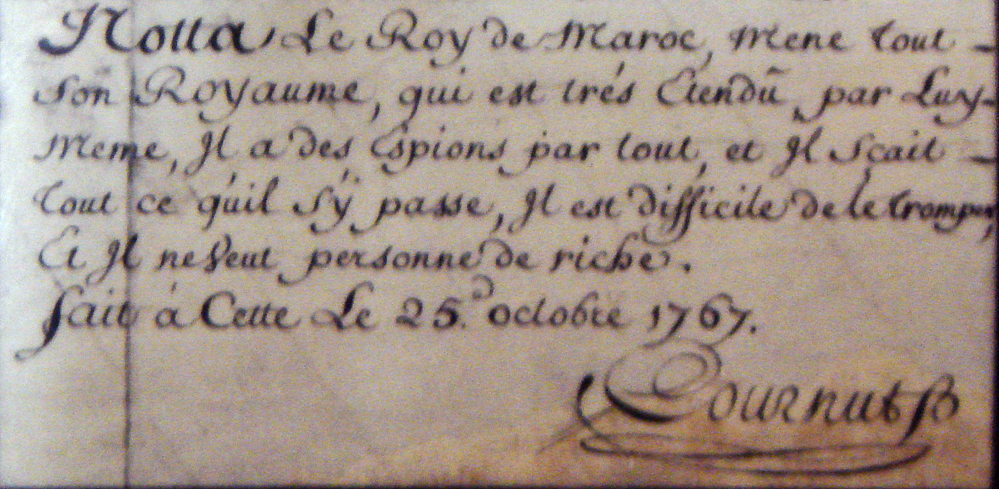 Cournut_handwriting_and_signature_25_October_1767